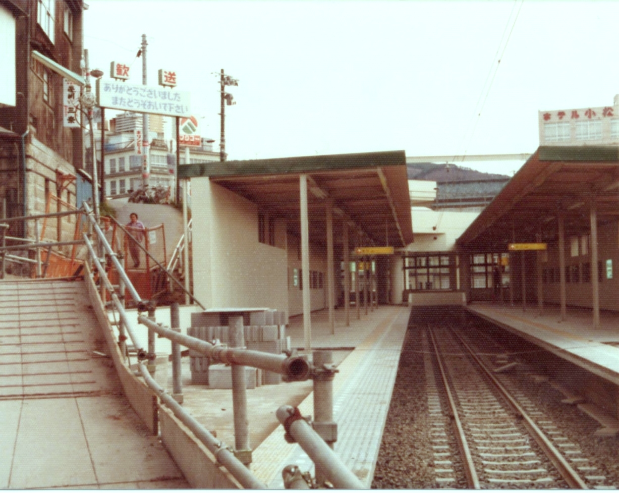 Iizaka-Onsen Station.